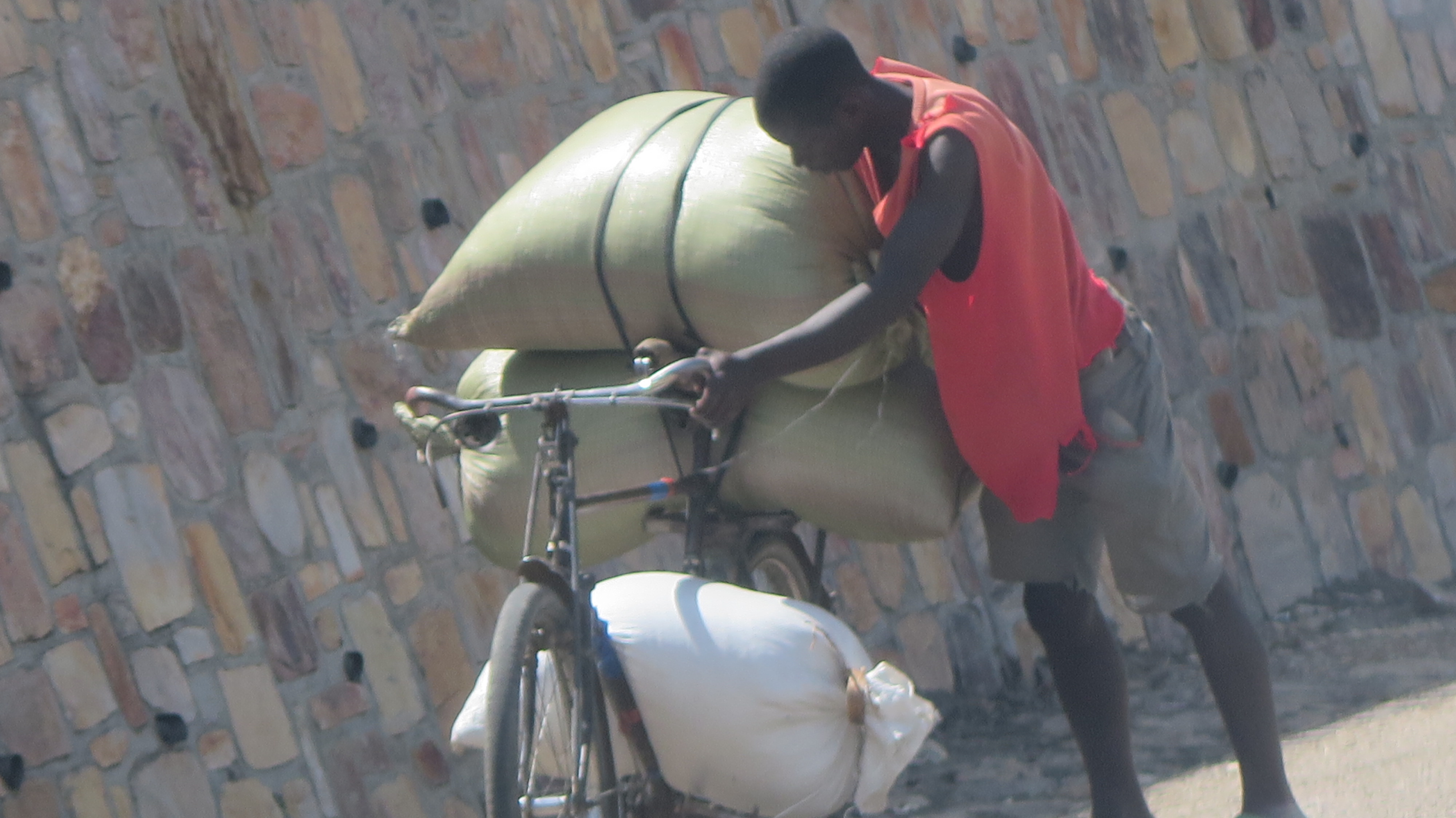 A man ferries maize flour on an overloaded bicycle in Ruhango District in Rwanda's Southern Province. Bicycles are a key mode of transport for rural folks. They are used to transport both goods and people. Picture taken while on the bus travelling to Huye town, just over 2 hours' drive from Kigali. This is an image of "African people at work" from Rwanda